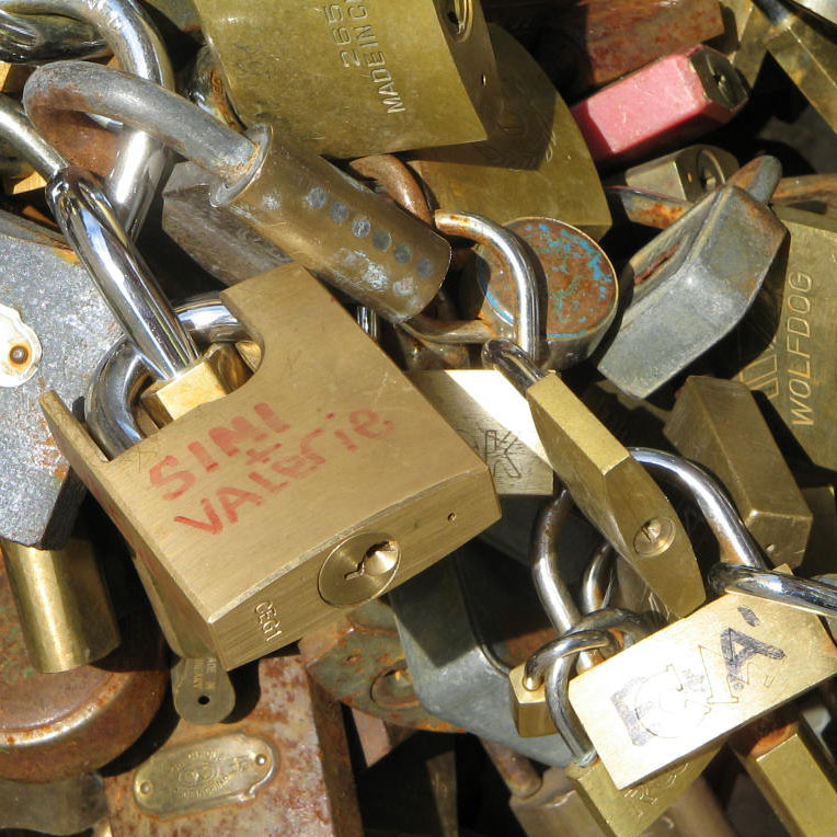 Locks of lovers from Pecs, Hungary. The love couples do a lock in Pécs,which is the symbol of eternal love.